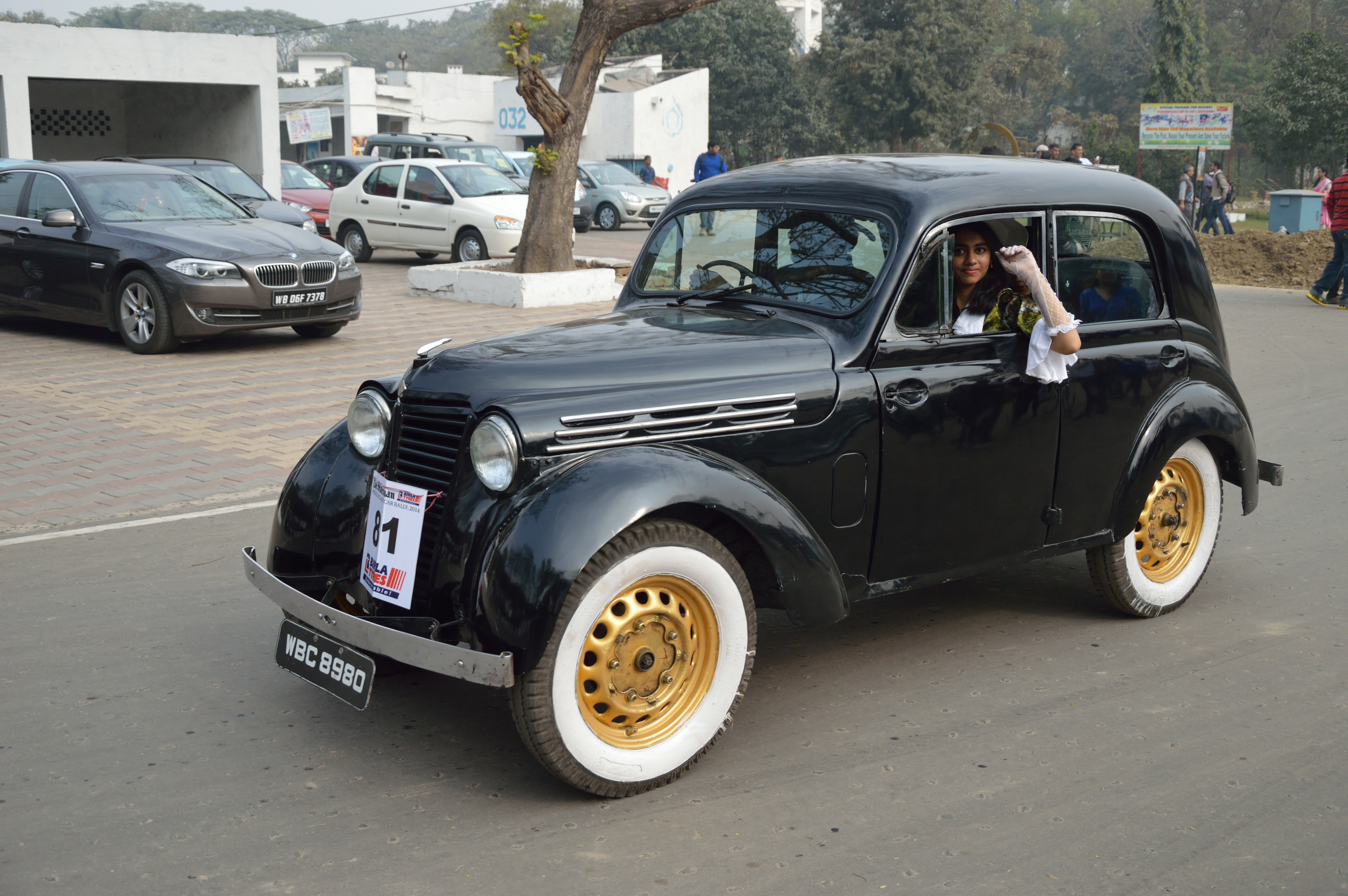 This classic car was exhibited and took part during ‘The Statesman Vintage & Classic Car Rally 2014’at the Eastern Command Sports Stadium of Fort William, Kolkata. The route was Strand road, Esplanade, Central avenue, Bhupen Bose avenue, Shaymbazaar five points crossing, APC Roy road, Moulali, CIT road, National Medical College, Park Circus seven points, Syed Amir Ali Avenue, Gariahat, Rashbehari Avenue, SP Mukherjee road, Hazra crossing, Ashutosh Mukherjee road, Exide crossing, AJC Bose road again Strand road and back to the ECS stadium. The rally was held at the morning on Sunday, 19 January 2013 at the ECS Stadium, where 175 entrants were registered with cars and bikes manufactured from 1906 to 1971. This one day festival usually takes place on the second Sunday of every January (but this time it is observed on third Sunday) in Kolkata since 1968 with full of period costume and cultural period pieces. This classic car is owned and driven by Indrajit Banerjee.